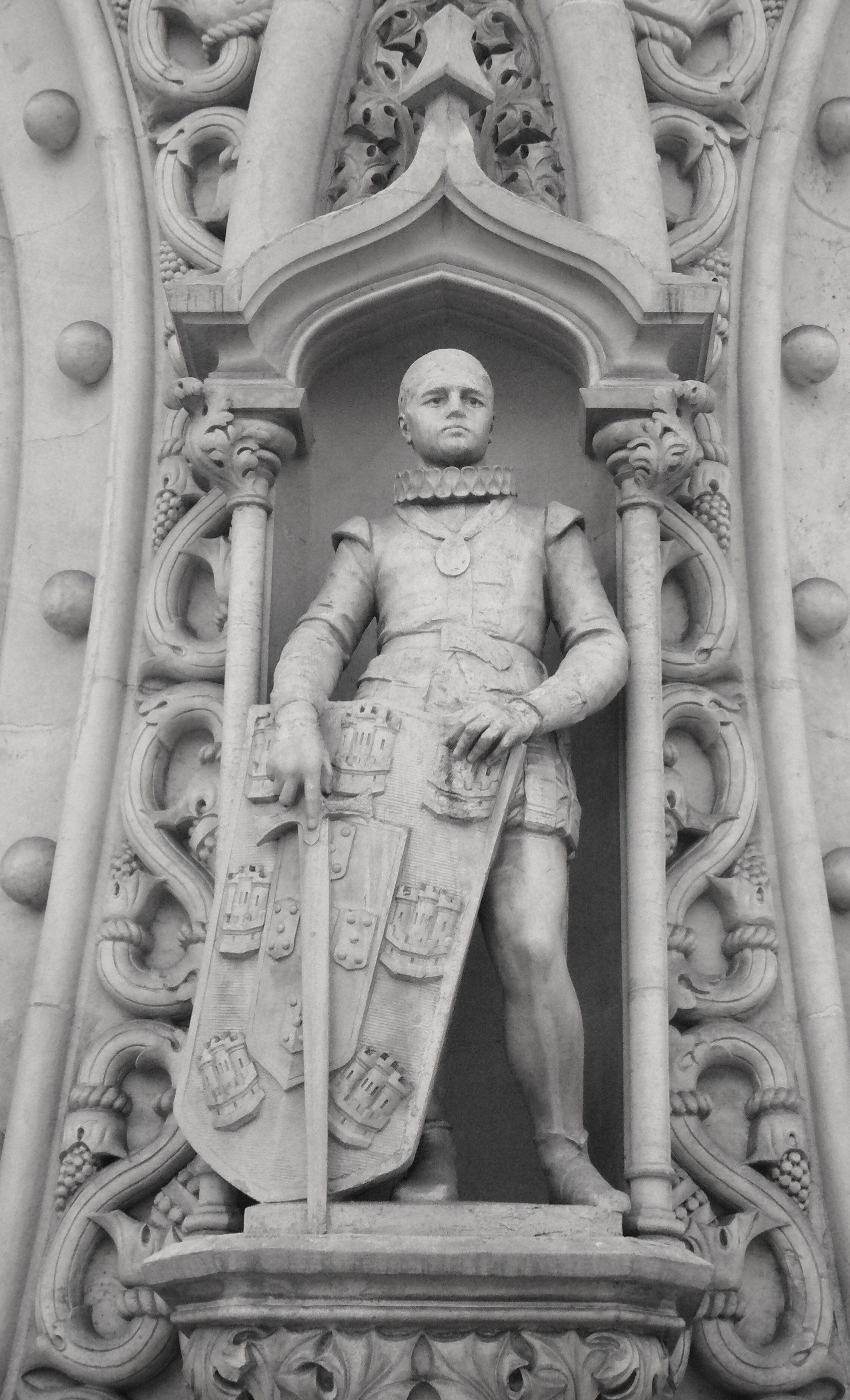 King D.Sebastian of Portugal (Born 1554-Died 1578). In 1578 King Sebastian of Portugal, in a disastrous invasion of Morocco, was almost certainly killed in the Battle Of Alcácer Quibir The legend: he would return on a foggy morning to save Portugal